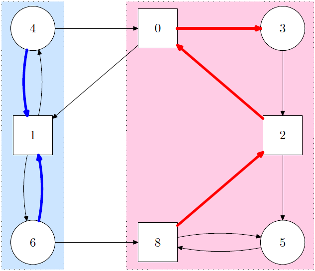 The image shows a simple example parity game with winning regions and winning strategies.